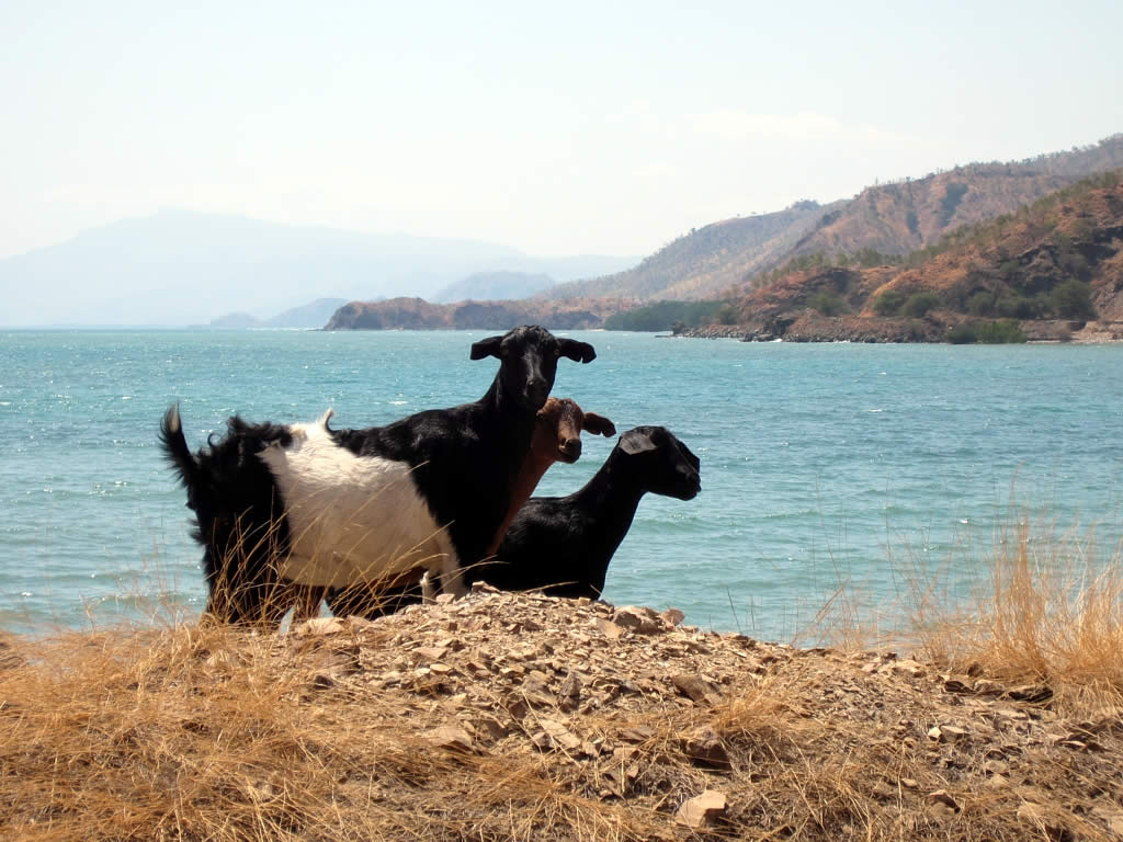 goats on the cost near Dili